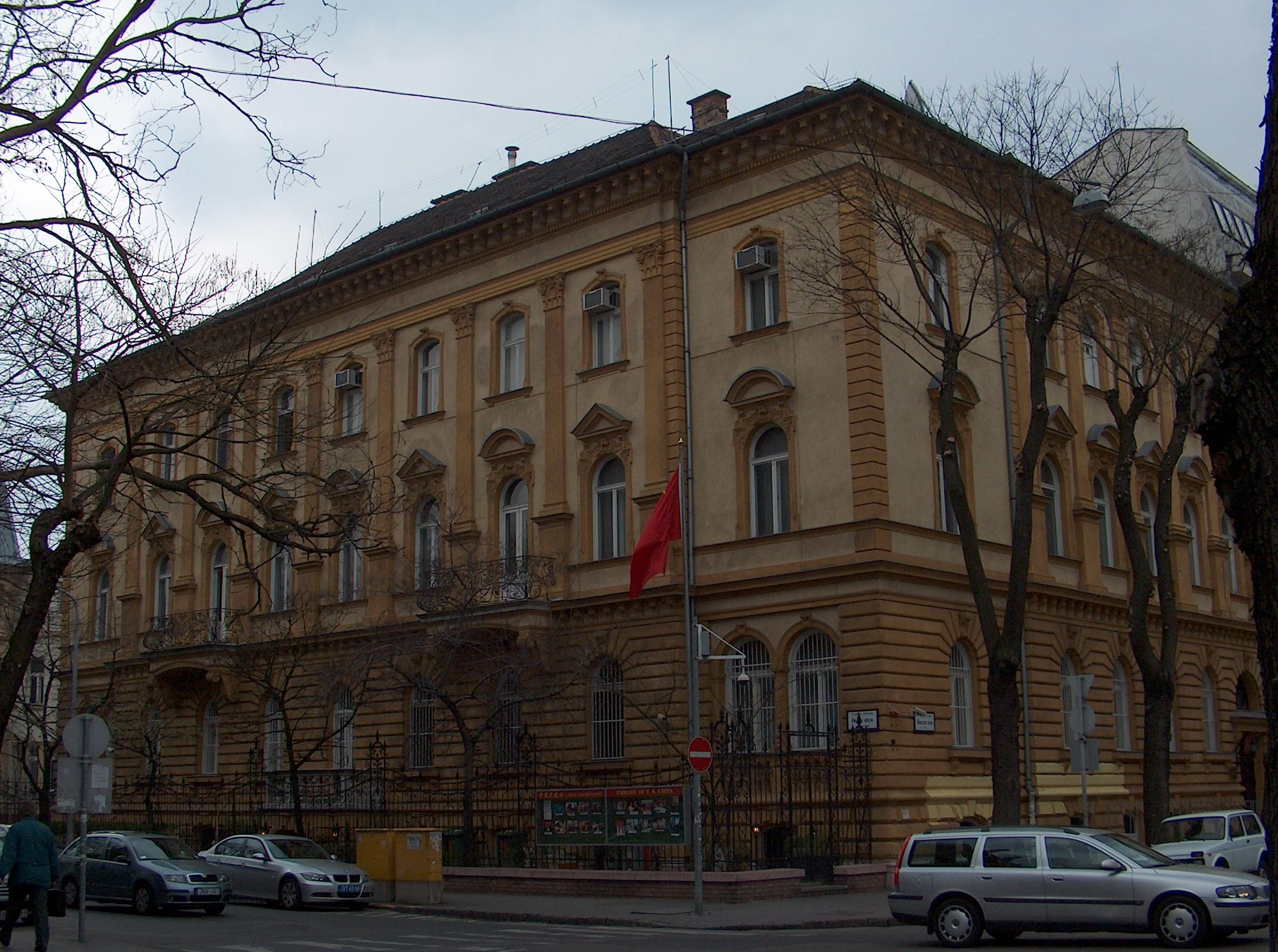 Embassy of China - Budapest